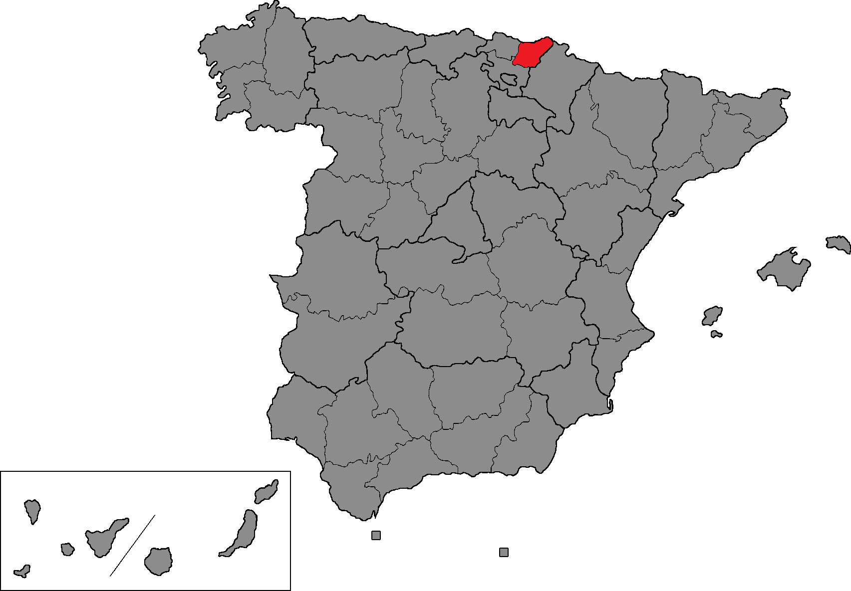 Spanish Congress of Deputies district of Gipuzkoa.